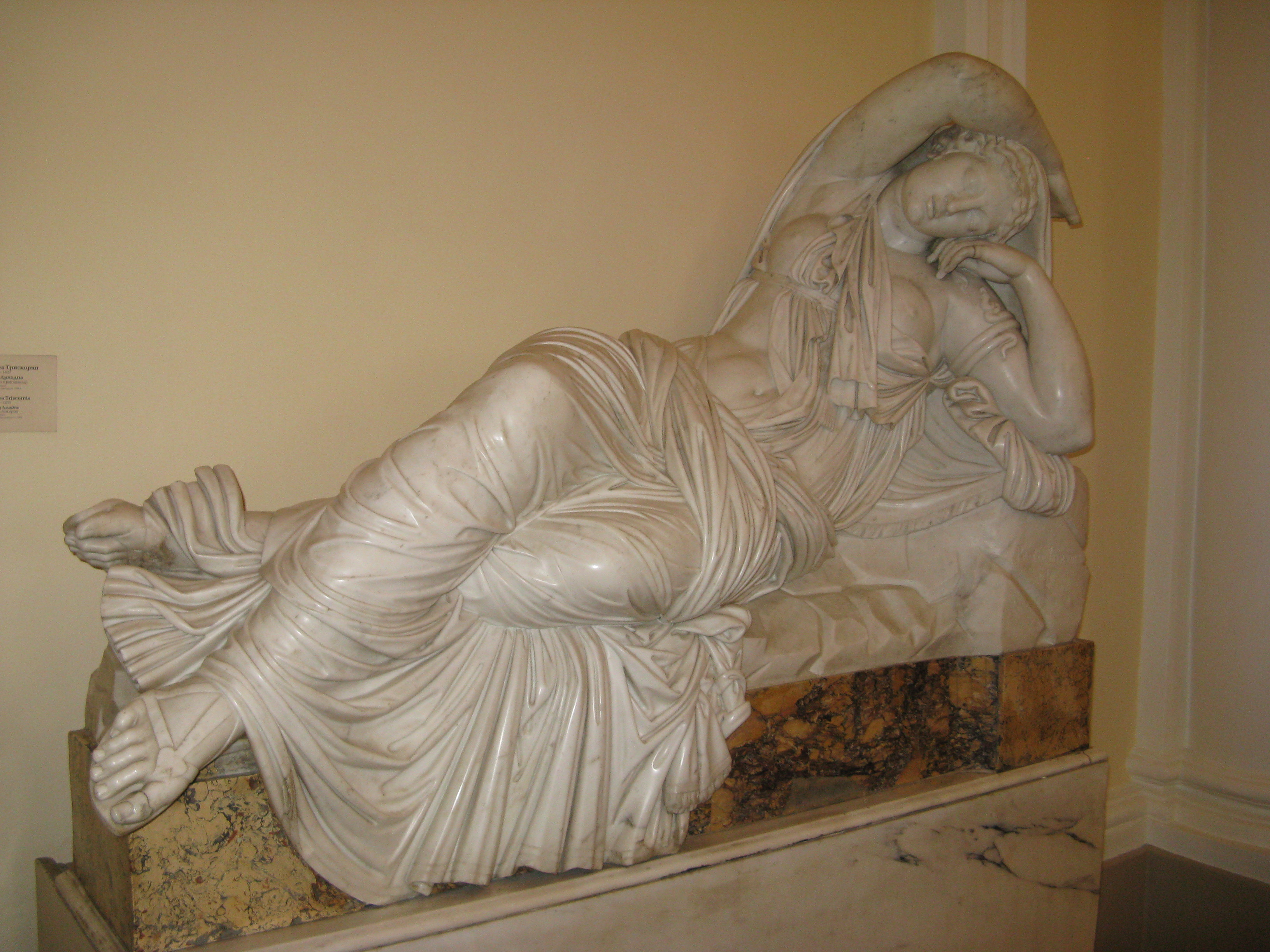 Sleeping Ariadne at the Hermitage, copy after Roman original in the Musei Vaticani.